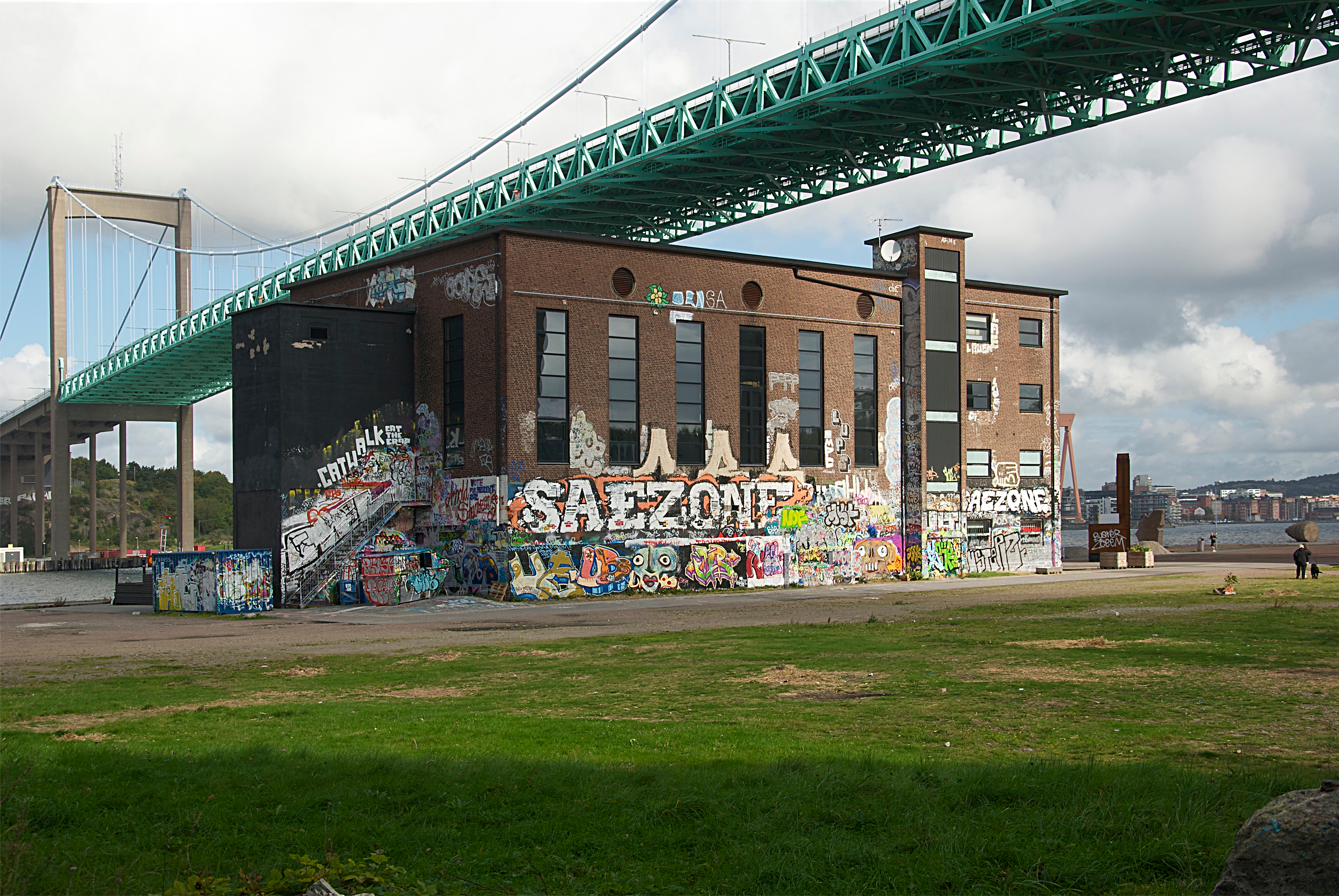 Röda sten (Red stone) art Centre and Älvsborgsbron in Gothenburg.